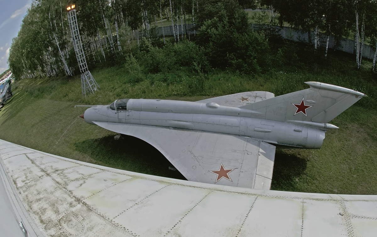 In 1964, based on the MiG-21s began the development of analogue aircraft A-144, aerodynamic design of the wing which repeats the shape of the bearing surface of the supersonic passenger airliner TU-144.